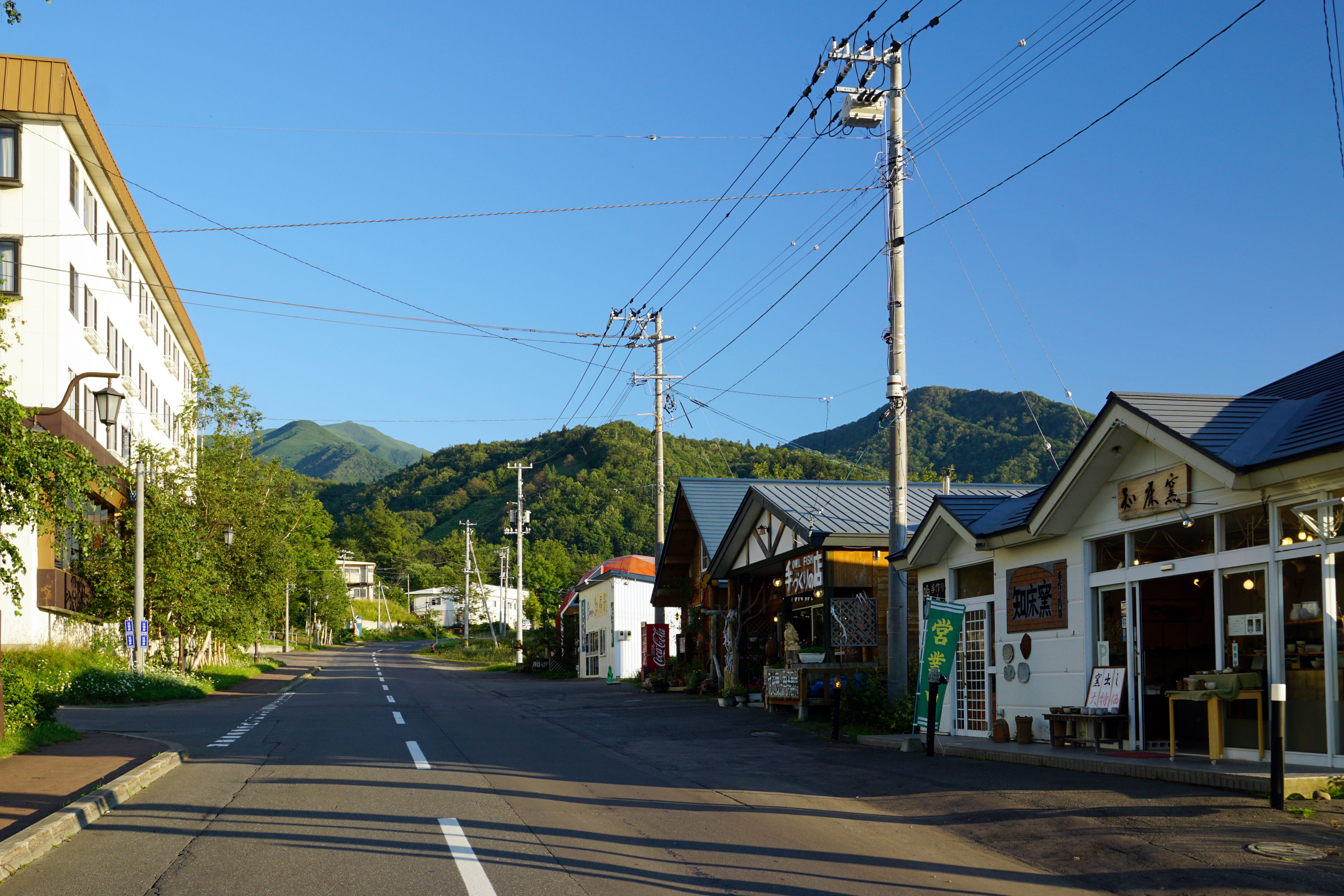 Utoro Onsen in Shari, Hokkaido prefecture, Japan.